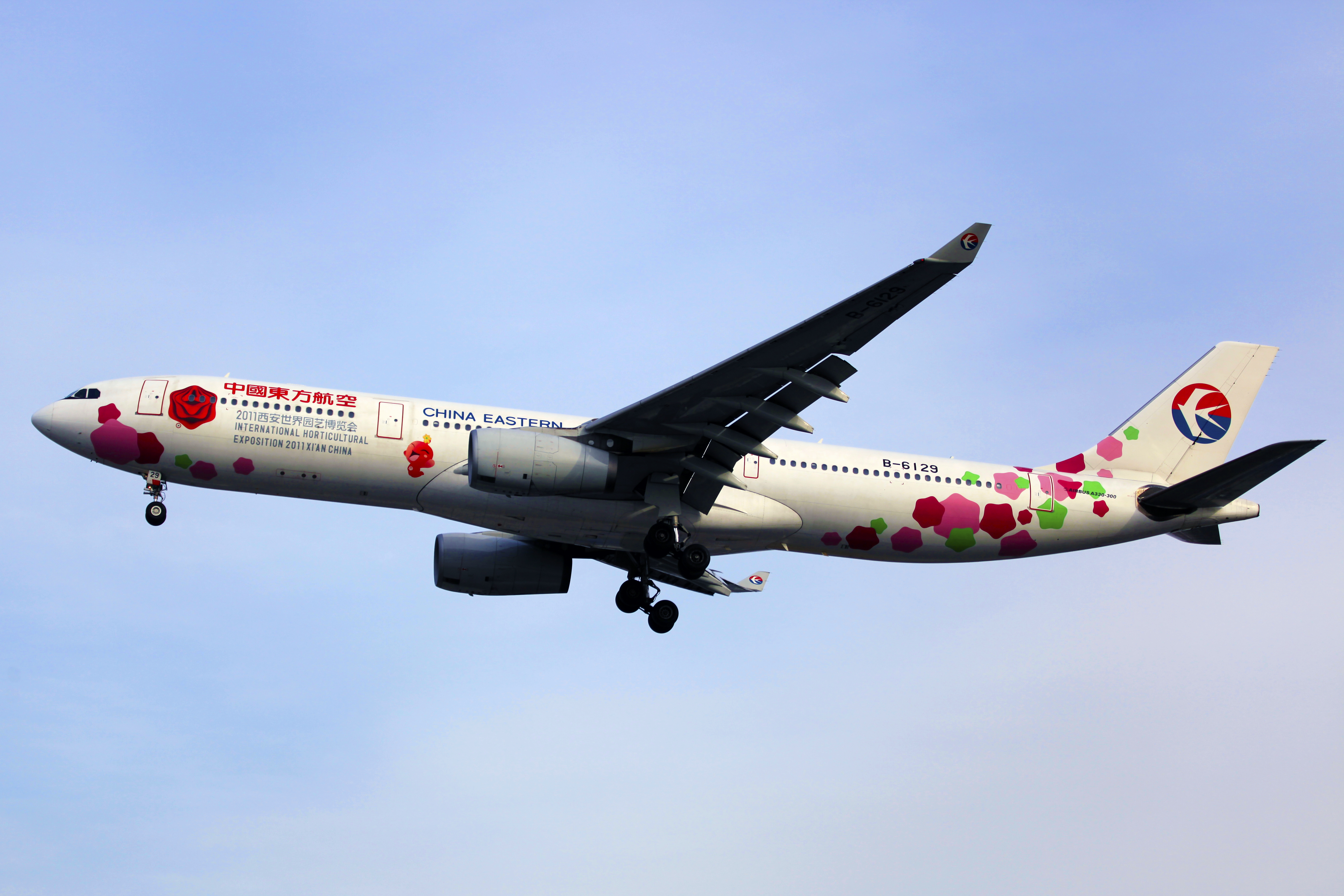 B-6129 | China Eastern Airlines | Airbus A330-343X | 2011 Xian Horticultural Expo Livery | Shanghai Hongqiao International Airport [SHA]